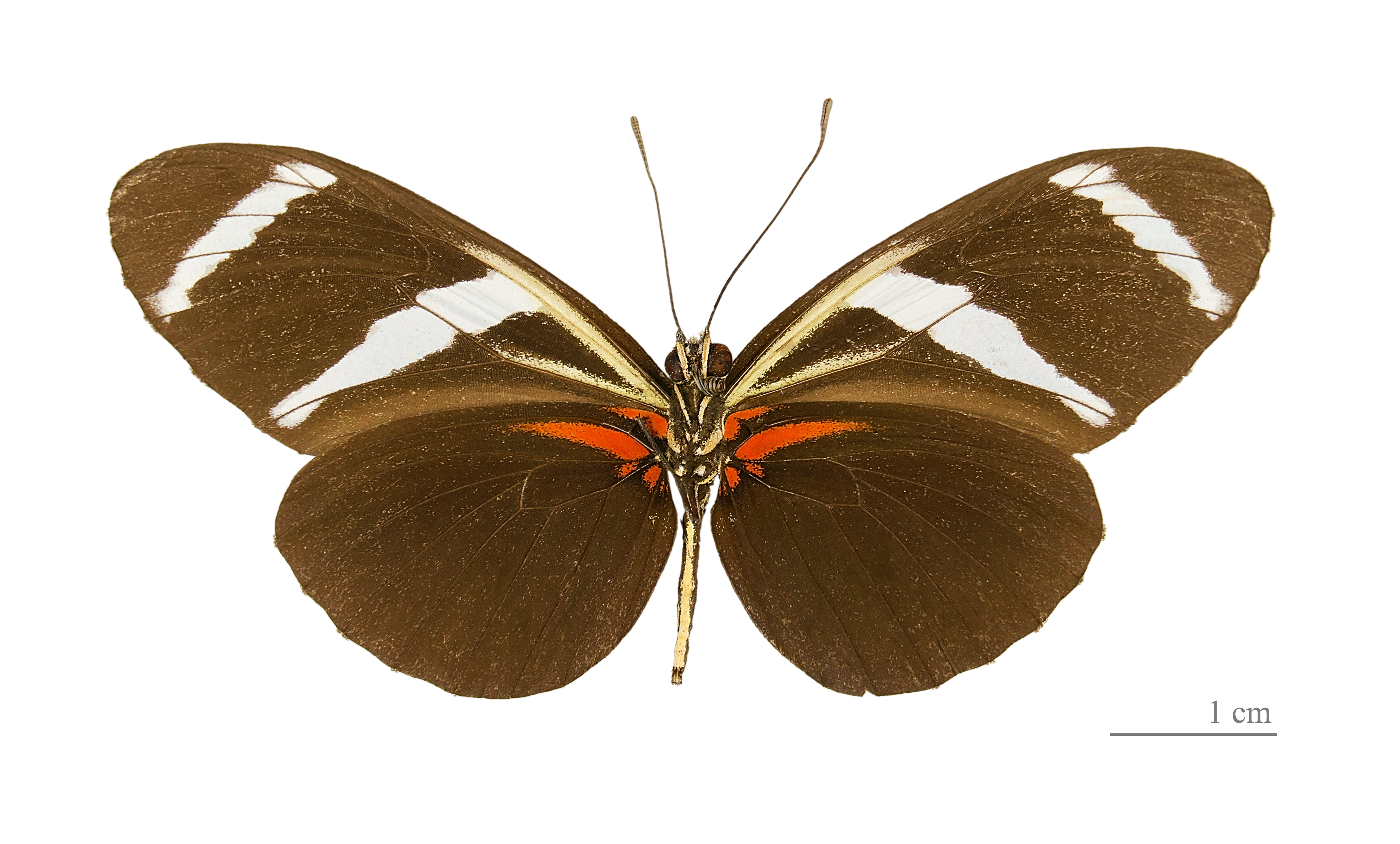 Heliconius antiochus - △ Ventral side